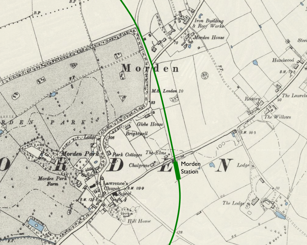 Proposed location of Wimbledon and Sutton Railway's unbuilt Morden station and route of line superimposed on an Ordnance Survey Map.